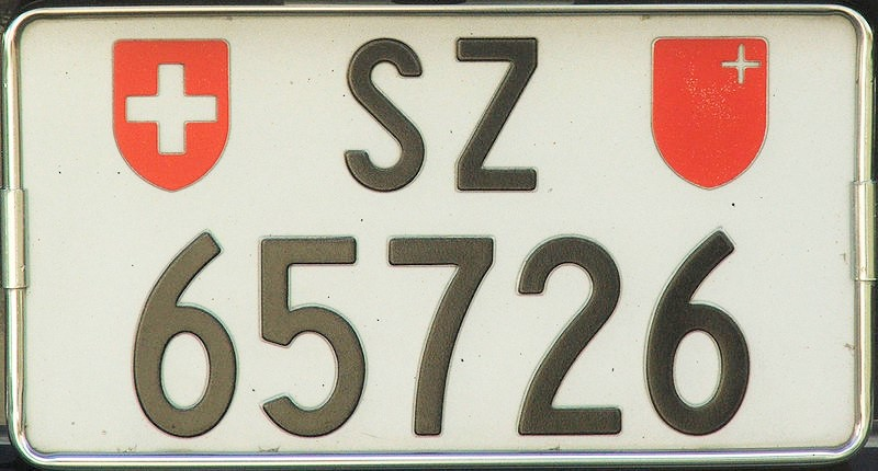 Vehicle licence plate from Switzerland as seen in 2007 - american size and shape. "SZ" stands for Schwyz canton.